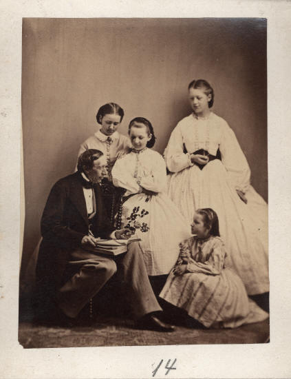 Hans Christian Andersen, 1863